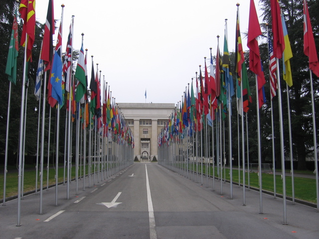 I (Paul Wittal) took this photo of the European UN headquarters in Geneva Switzerland in January 2006.